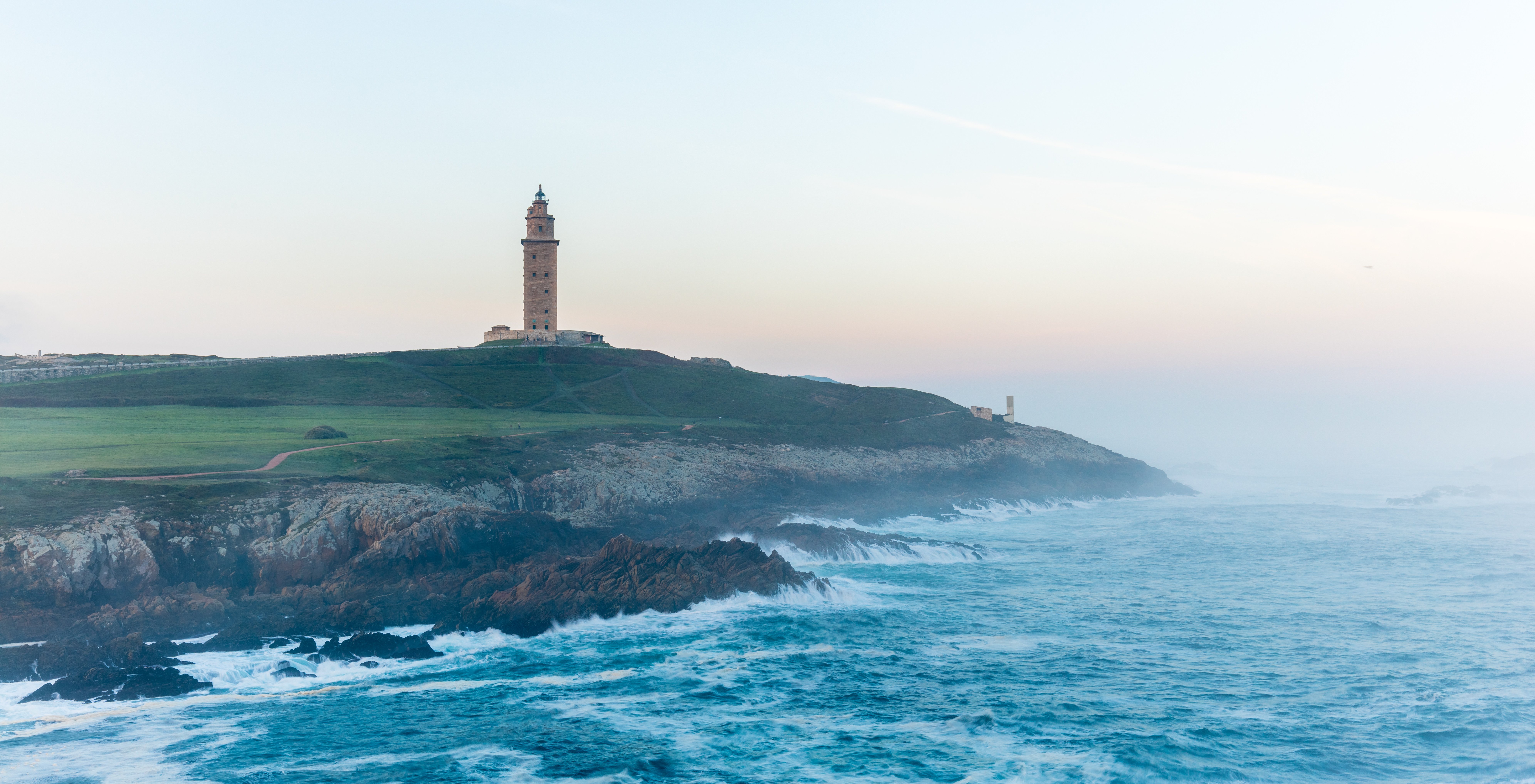 Hercules Tower, La Coruña, Spain